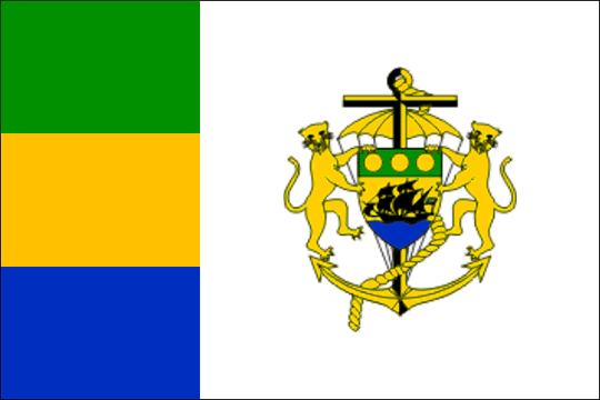 Naval ensign of Gabon